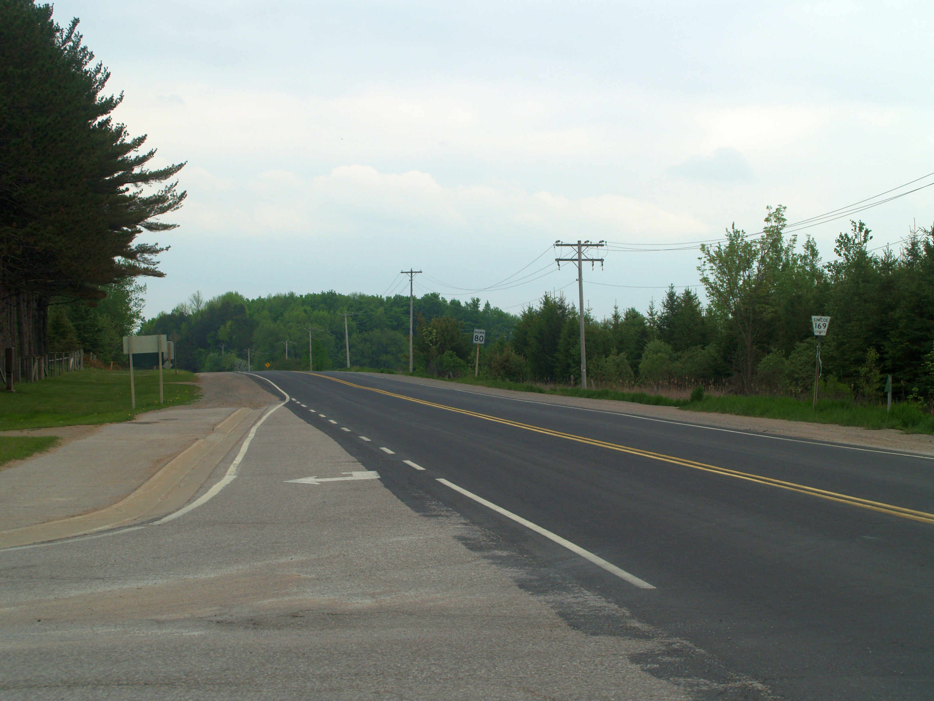 Facing south on Highway 169 east of Orillia, at Simcoe County Road 46.